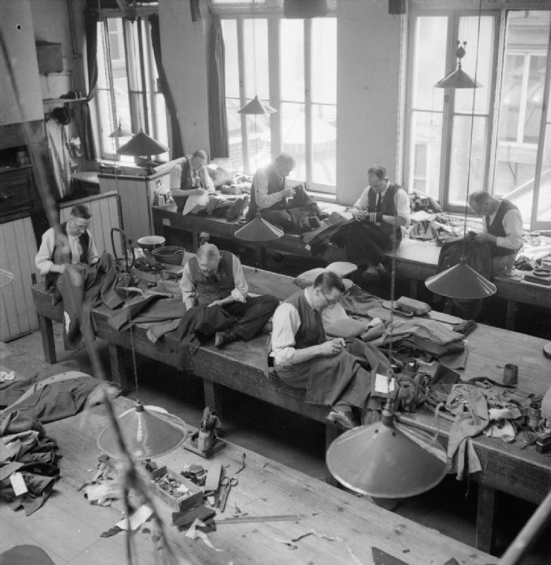 Savile Row- Tailoring at Henry Poole and Co., London, England, UK, 1944 A view of the workroom at Henry Poole and Co., showing tailors at work on various types of jacket, including a naval officer's jacket, second from right on the rear row. The men are all sitting on the workbenches, some cross-legged, the garments resting in their laps as they work.